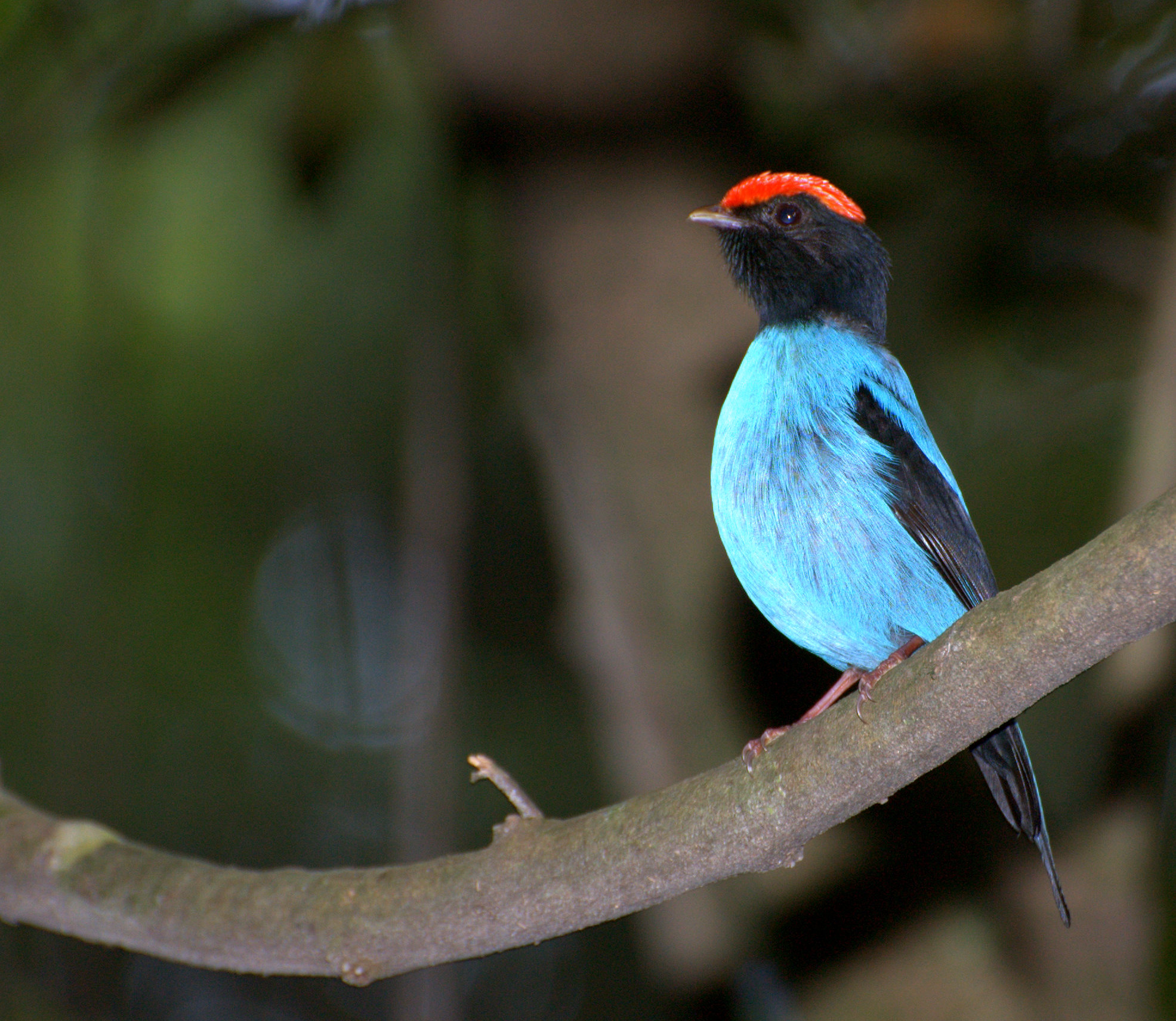 Blue Manakin TANGARÁ (Chiroxiphia caudata) Parque Estadual da Serra da Cantareira - São Paulo-SP Noise, subject not entirely in focus (insufficient DOF)